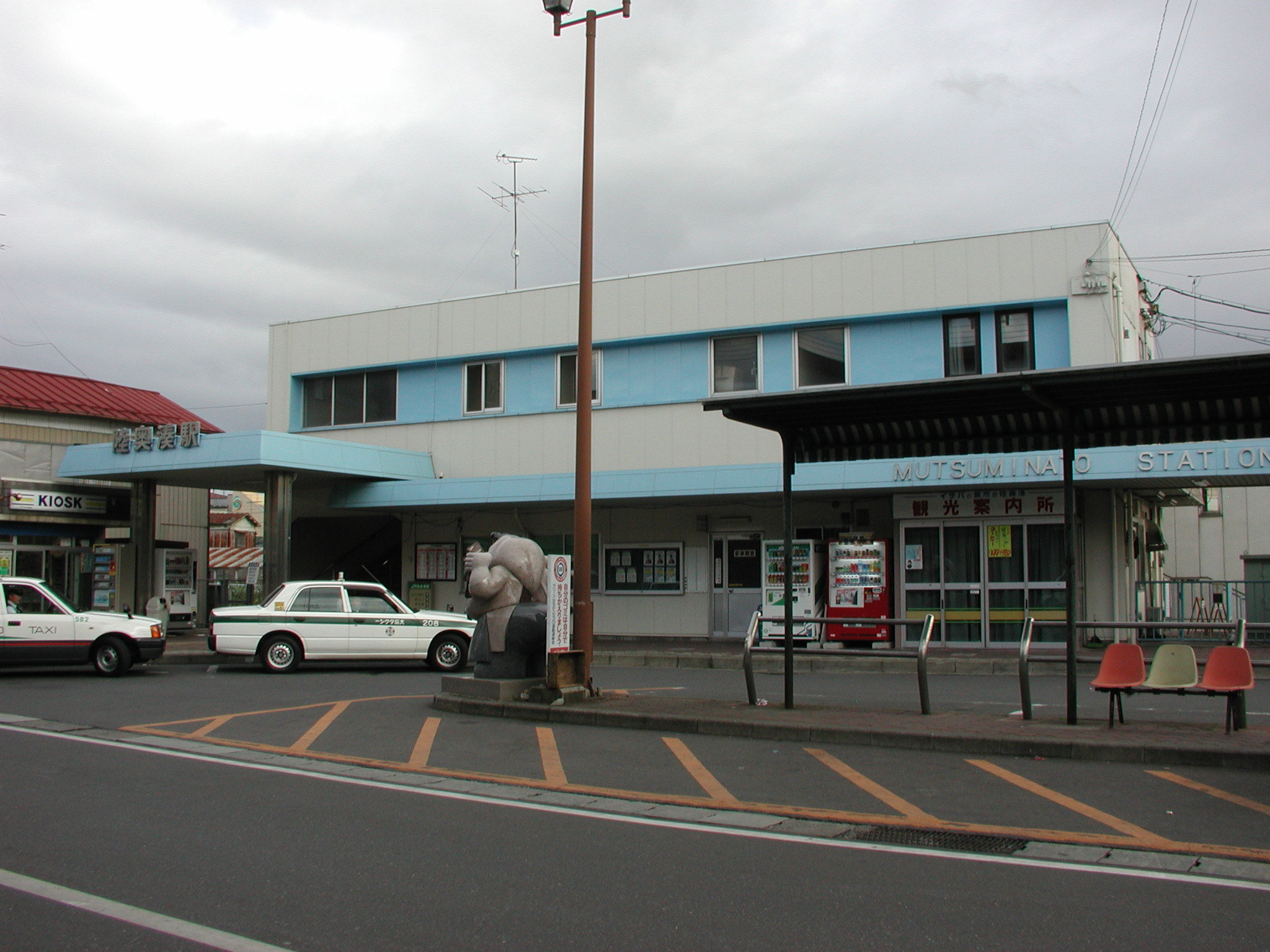 Mutsu-Minato Station of North Entrance